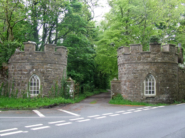 The lodge gatehouses. View of the derelict lodge gatehouses alongside the B5109 at Baron hill, Beaumaris